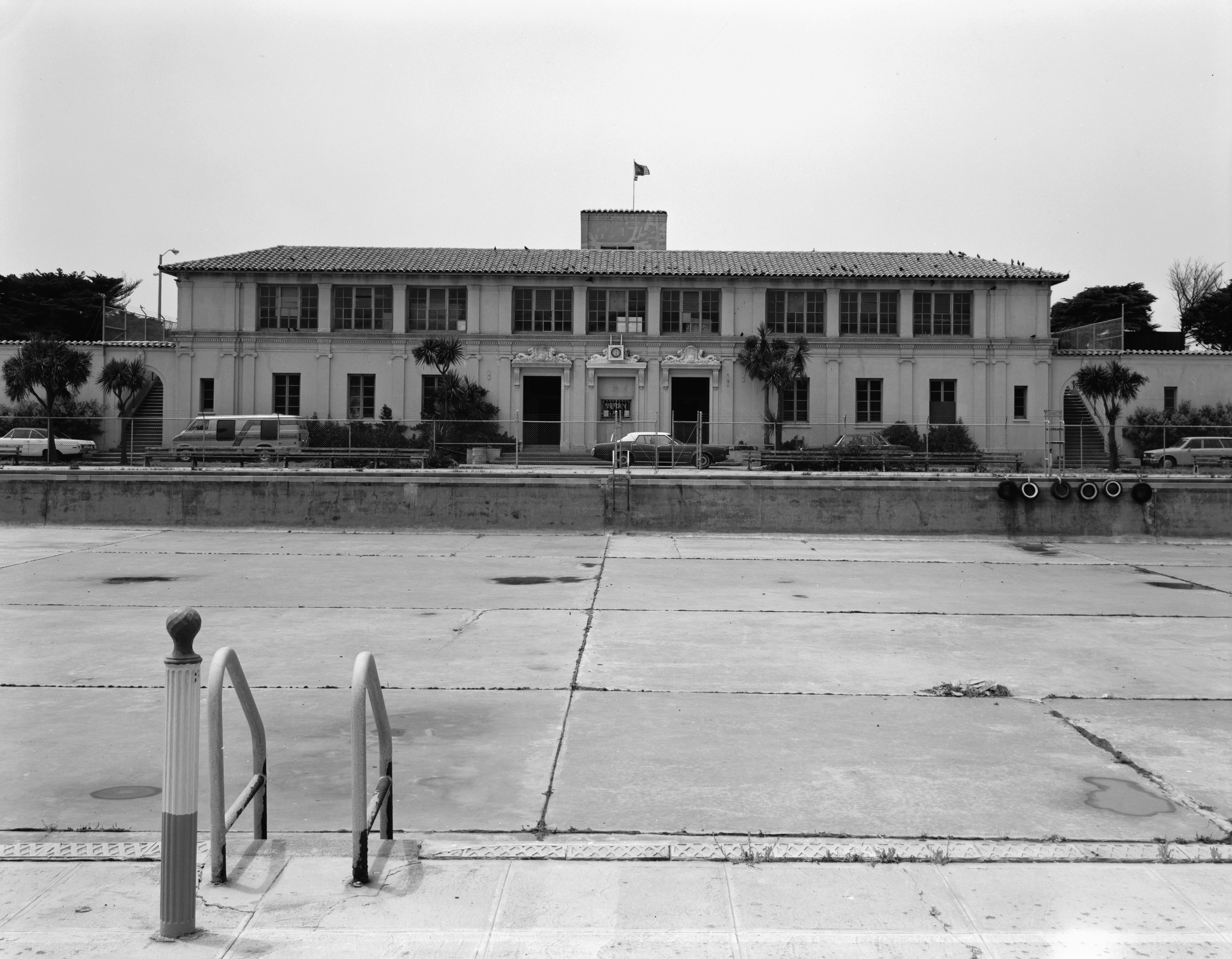 Fleischhacker Pool & Bath House — in San Francisco, California. VIEW ACROSS POOL SHOWING (EAST) ELEVATION OF BATH HOUSE. Bath House on the National Register of Historic Places.Historic American Buildings Survey—HABS image.Call Number: HABS CAL,38-SANFRA,136-6. Notes: Survey number HABS CA-2075. Unprocessed field note material exists for this structure (95). Building/structure dates: 1925 initial construction.